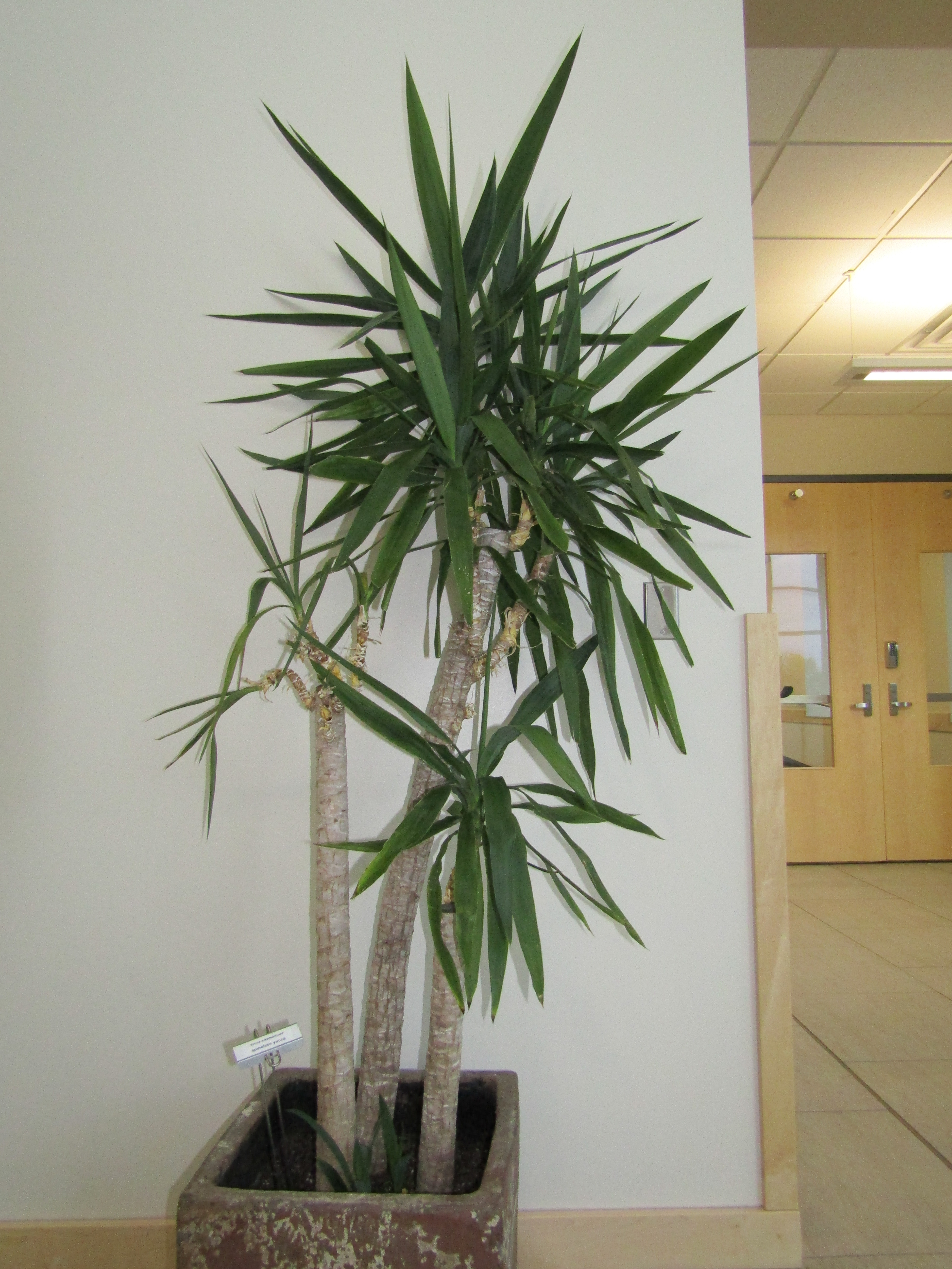 Yucca elephantipes in the Life Sciences Building of BYU.